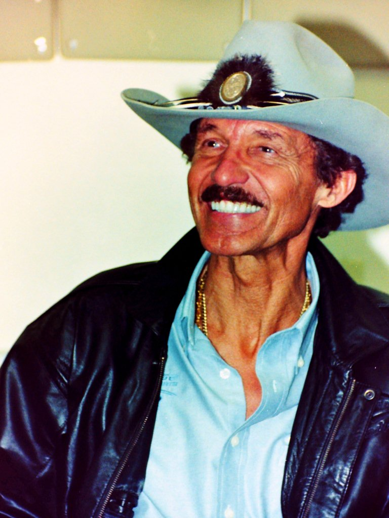 Richard Petty in 1997 without wearing his trademark sunglasses